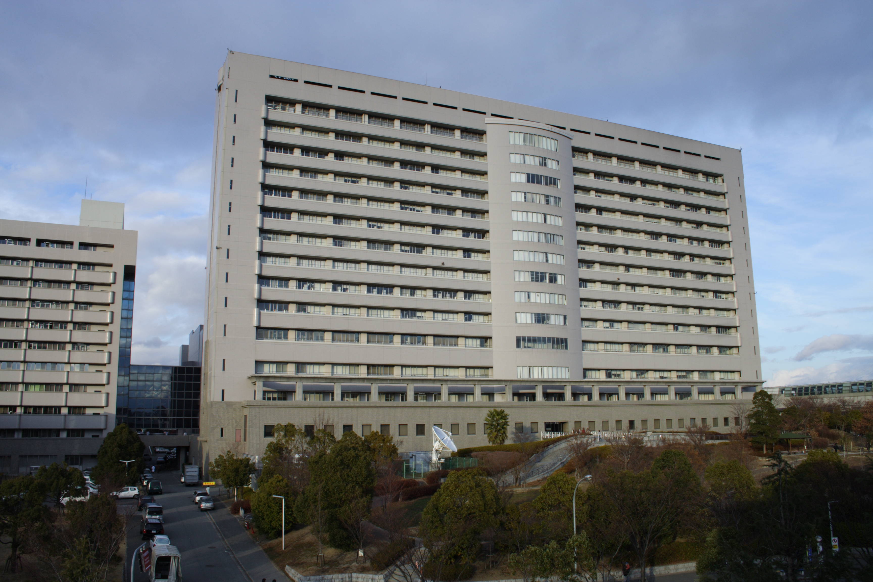 Building of Osaka University Hospital/大阪大学医学部付属病院